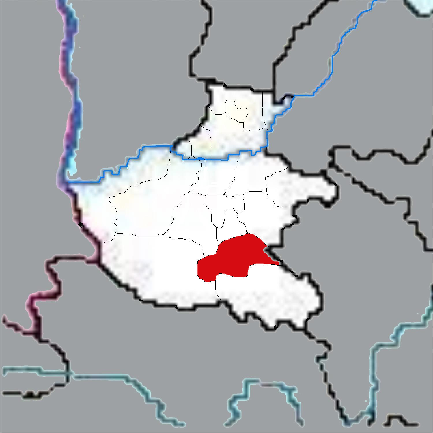 Maps of Henan Province of China